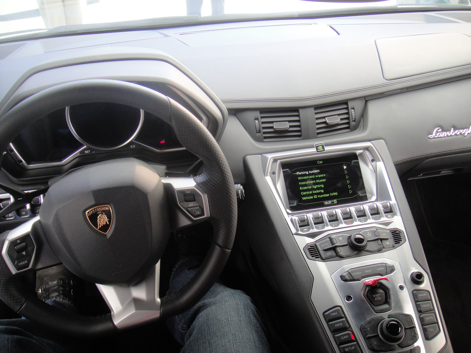 photo 2012 Pop Culture Geek taken by Doug Kline If you're interested in higher resolution versions of my images, contact me via my profile page.